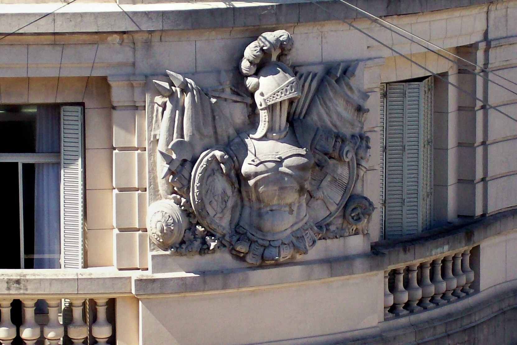 Detail of Legislative Palace of Buenos Aires, Barrio de Monserrat.